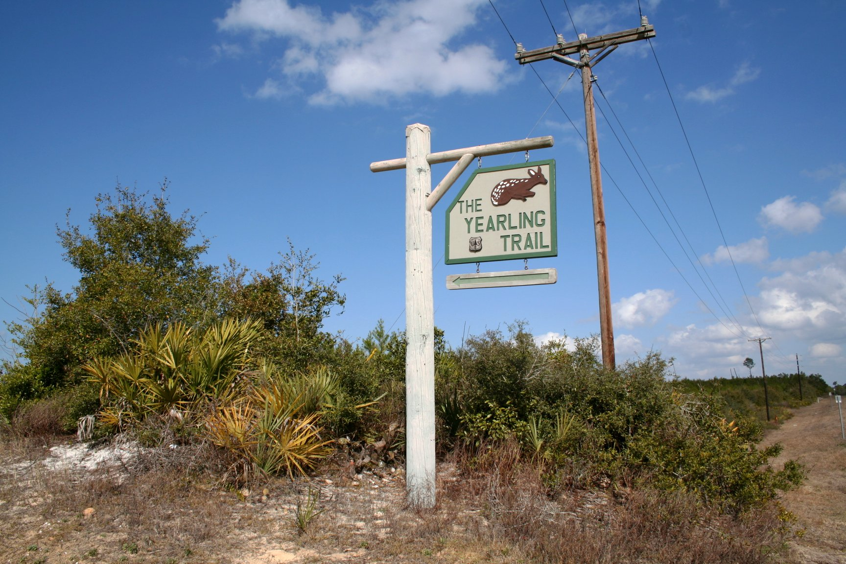 Photograph of the entrance to Yearling Trail in the Juniper Prairie Wilderness, Ocala National Forest, Florida, USA taken by Rolf Müller on January 28, 2006 using a Canon EOS 350D digital camera with an EFS 18-55mm lens.